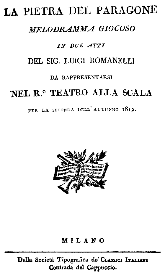 Gioachino Rossini - La pietra del paragone - titlepage of the libretto - Milan 1812